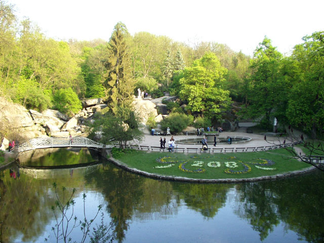 Sofievka Park in Uman, Ukraine. Attribution information, such as the author's name, e-mail, website, or signature, that was once visible in the image itself has been moved into the image metadata and/or image description page. This makes the image easier to reuse and more language-neutral, and makes the text easier to process and search for. Commons discourages placing visible author information in images. Removed watermark read: [castle logo]